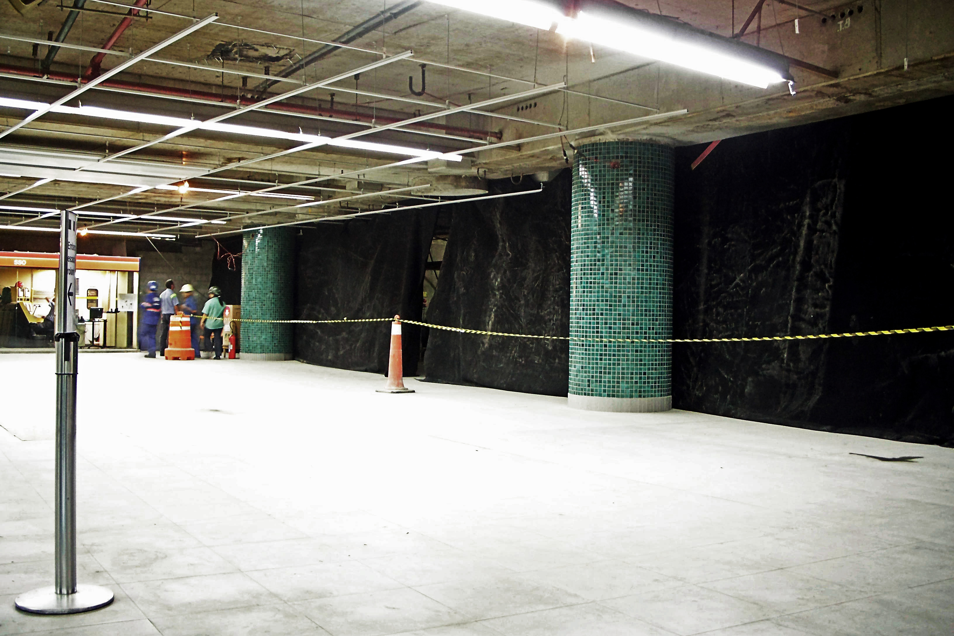 Construction at República subway station in São Paulo, Brazil.